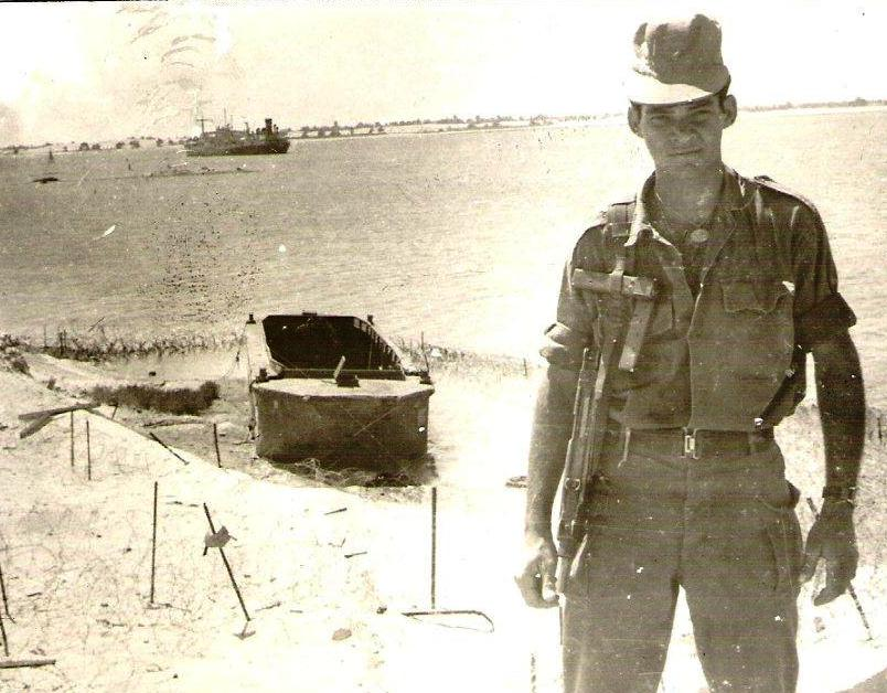 Ship anchored in the suez canal since 1967 with no possibility to move